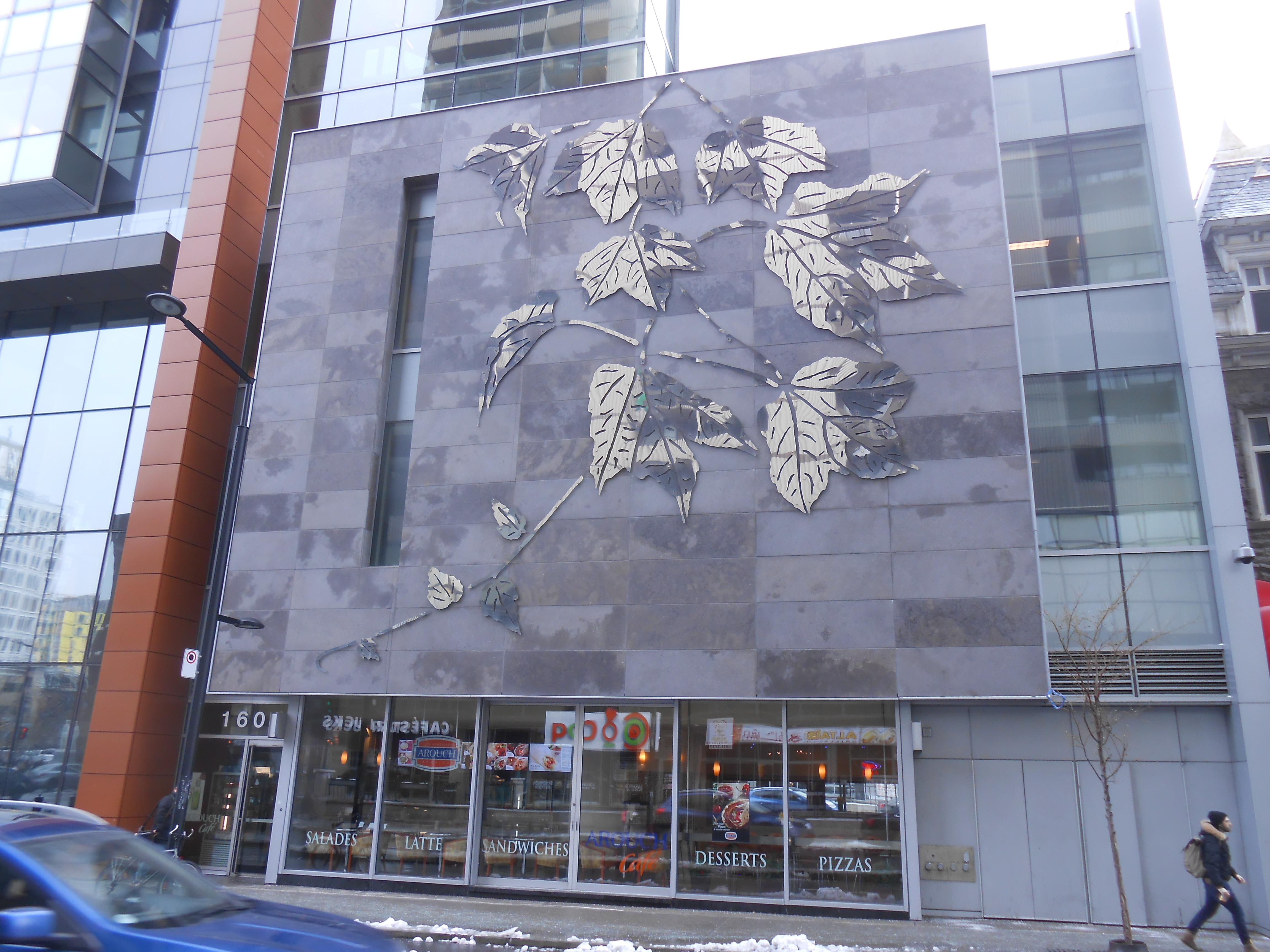 « Outdoor art by Geneviève Cadieux (Ivy Leaves facing De Maisonneuve Blvd. West), is made of reflective anodized metal climbing up a limestone wall and covers 550 square feet. »